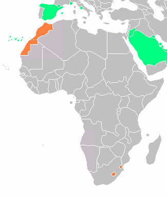 African monarchies